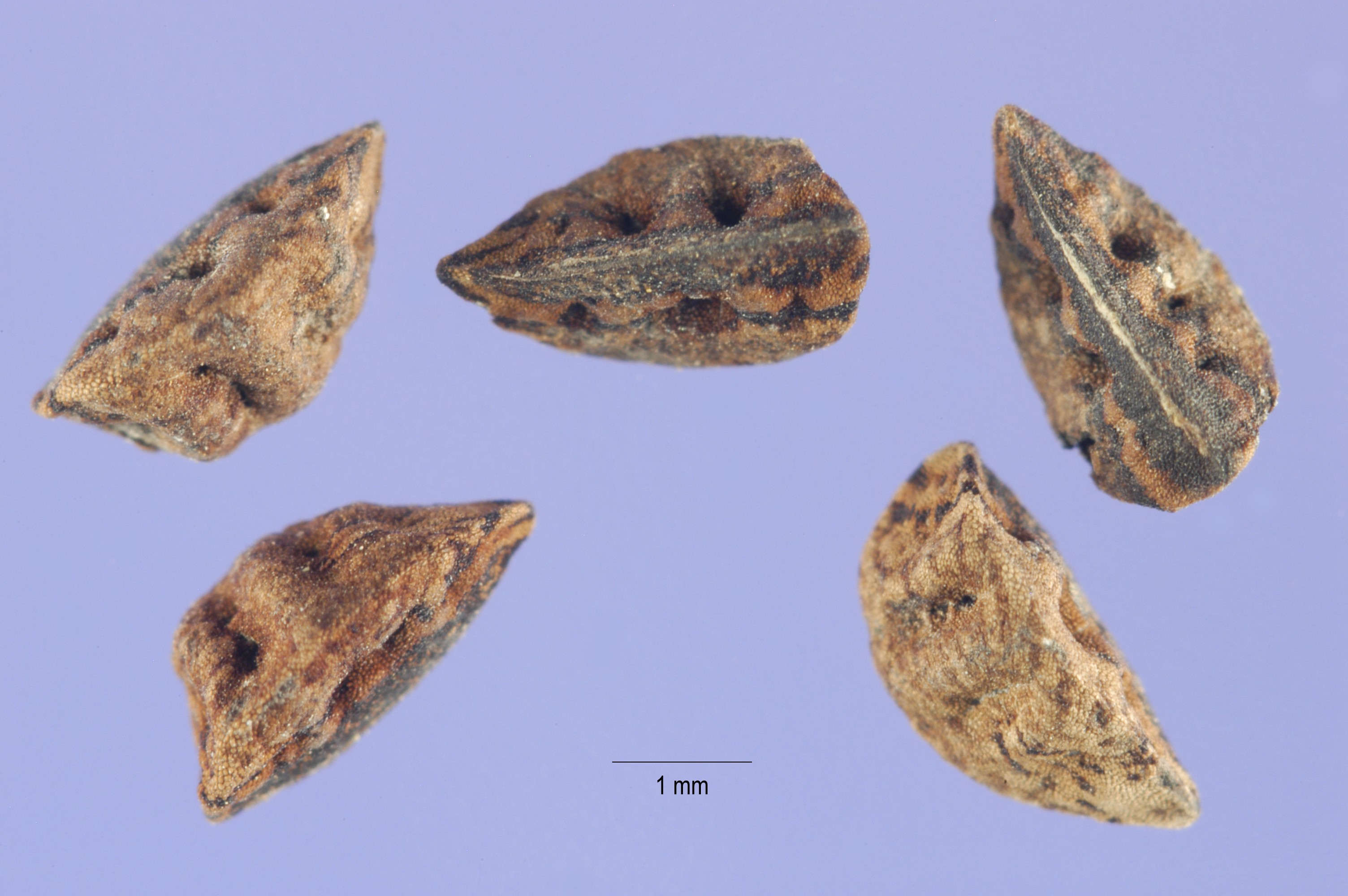 Asphodelus fistulosus seeds from Steve Hurst. Provided by ARS Systematic Botany and Mycology Laboratory. Turkey, Antalya.